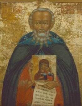 Saint Abraham of Galich cropped from